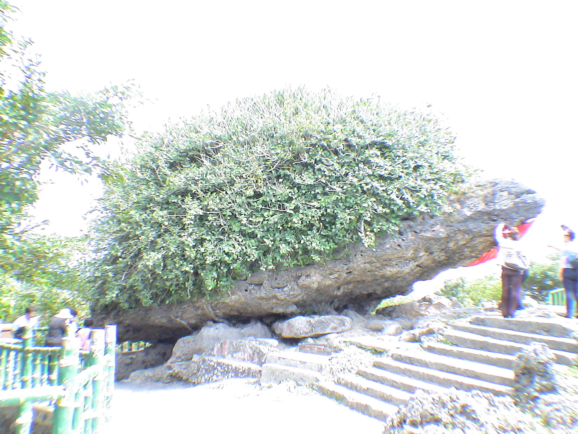 The Rock in Guanshan,located in the Kenting National Park.